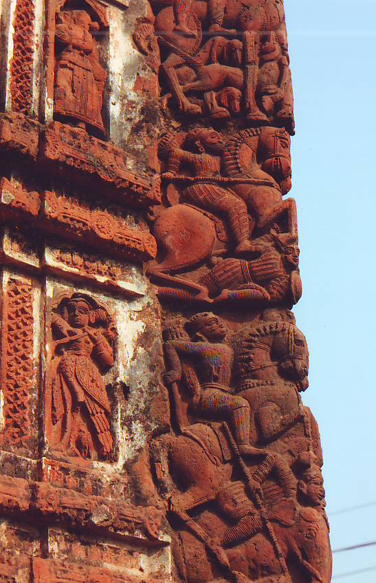 Radhabinode Temple, Jaydev Kenduli, terracotta carving detail